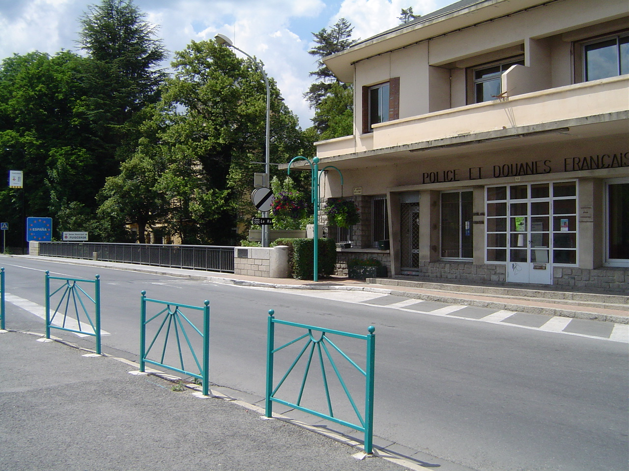 Bourg-Madame (Pyrénées-Orientales, France) : Border with Puigcerdà in Spain.